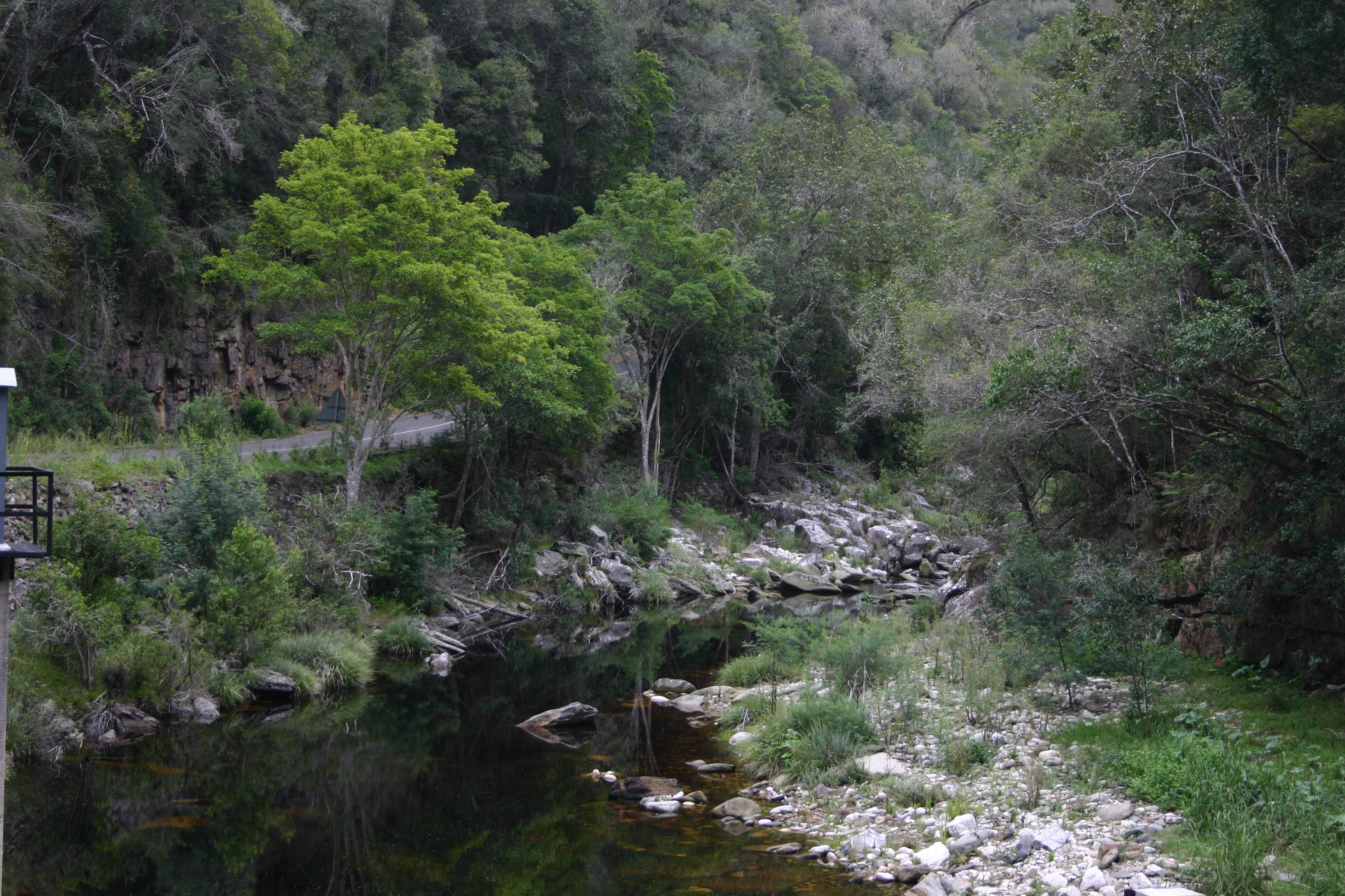 Bloukrans Pass and Bloukrans River, near Nature's Valley, South Africa